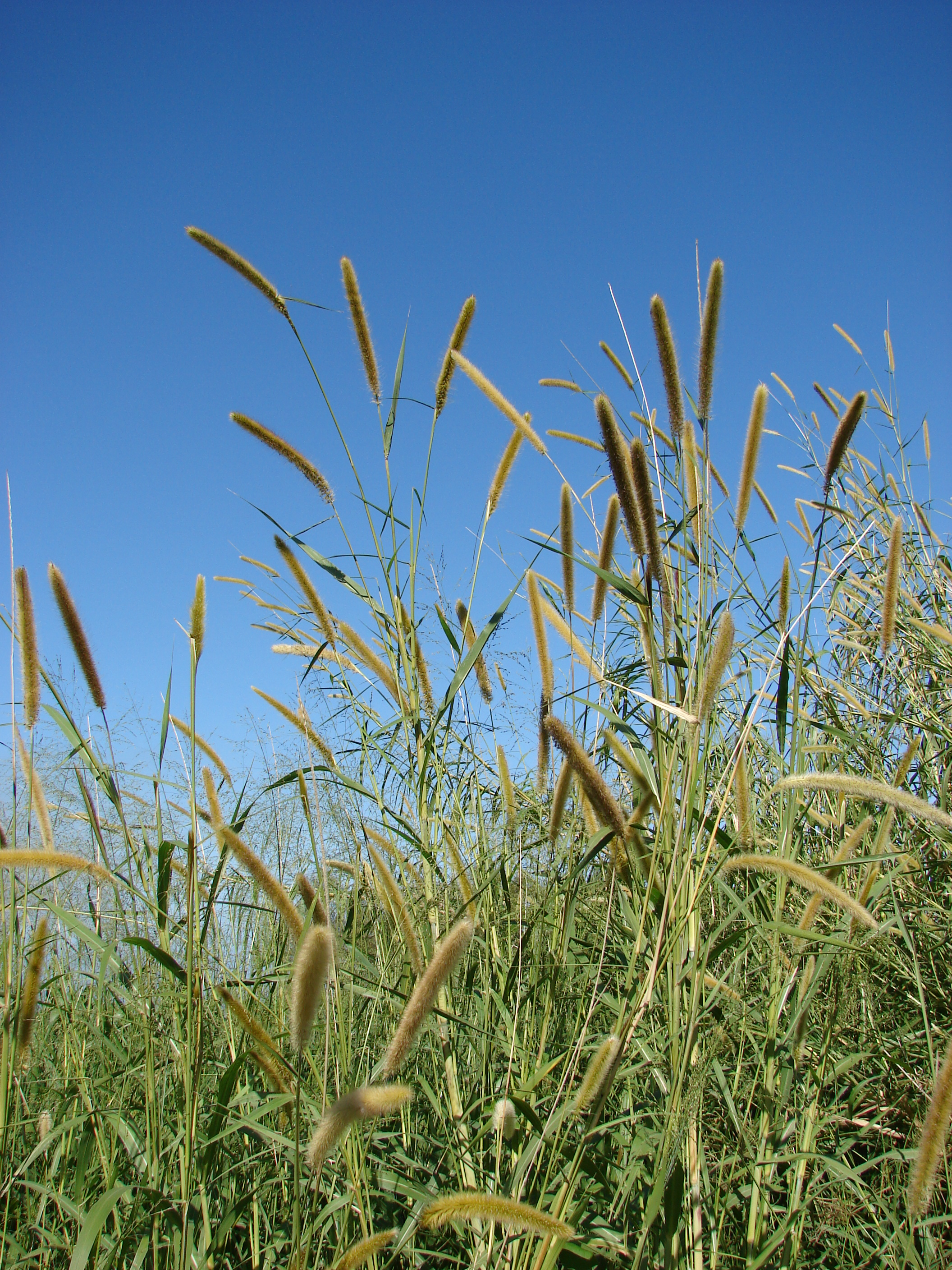 Pennisetum purpureum (inflorescences). Location: Maui, Makawao